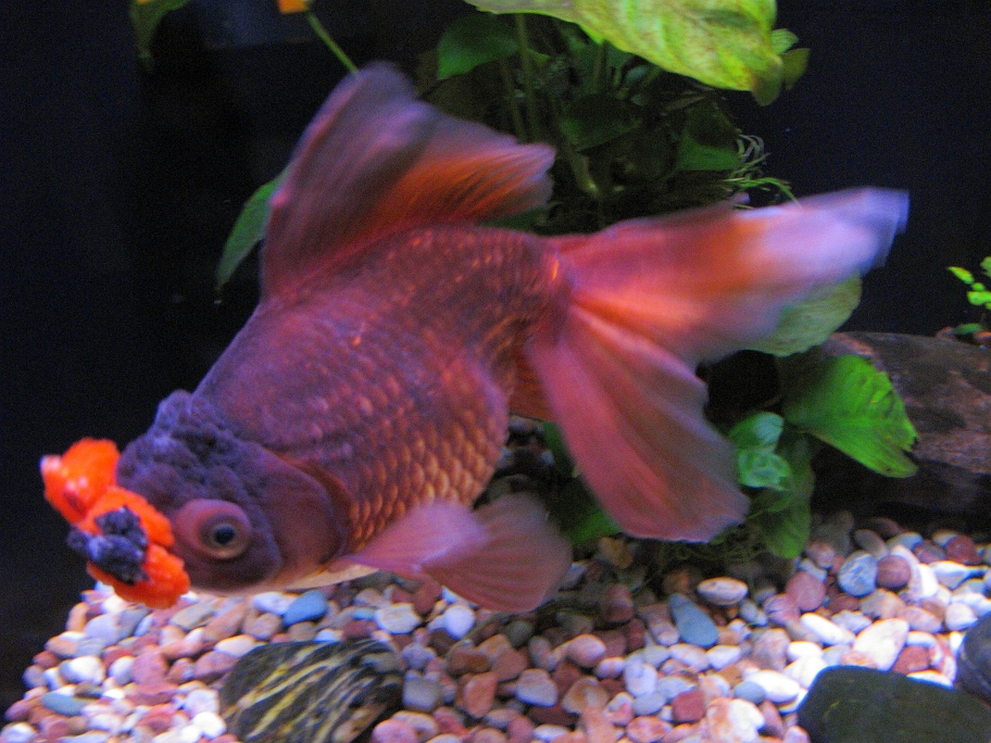 Rare Chocolate Oranda with Red pompoms